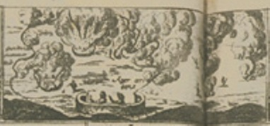 Seven holy fires and revered temple enclosure in Surakhany. Fig. by E. Kempfer, the end of the XVII century.